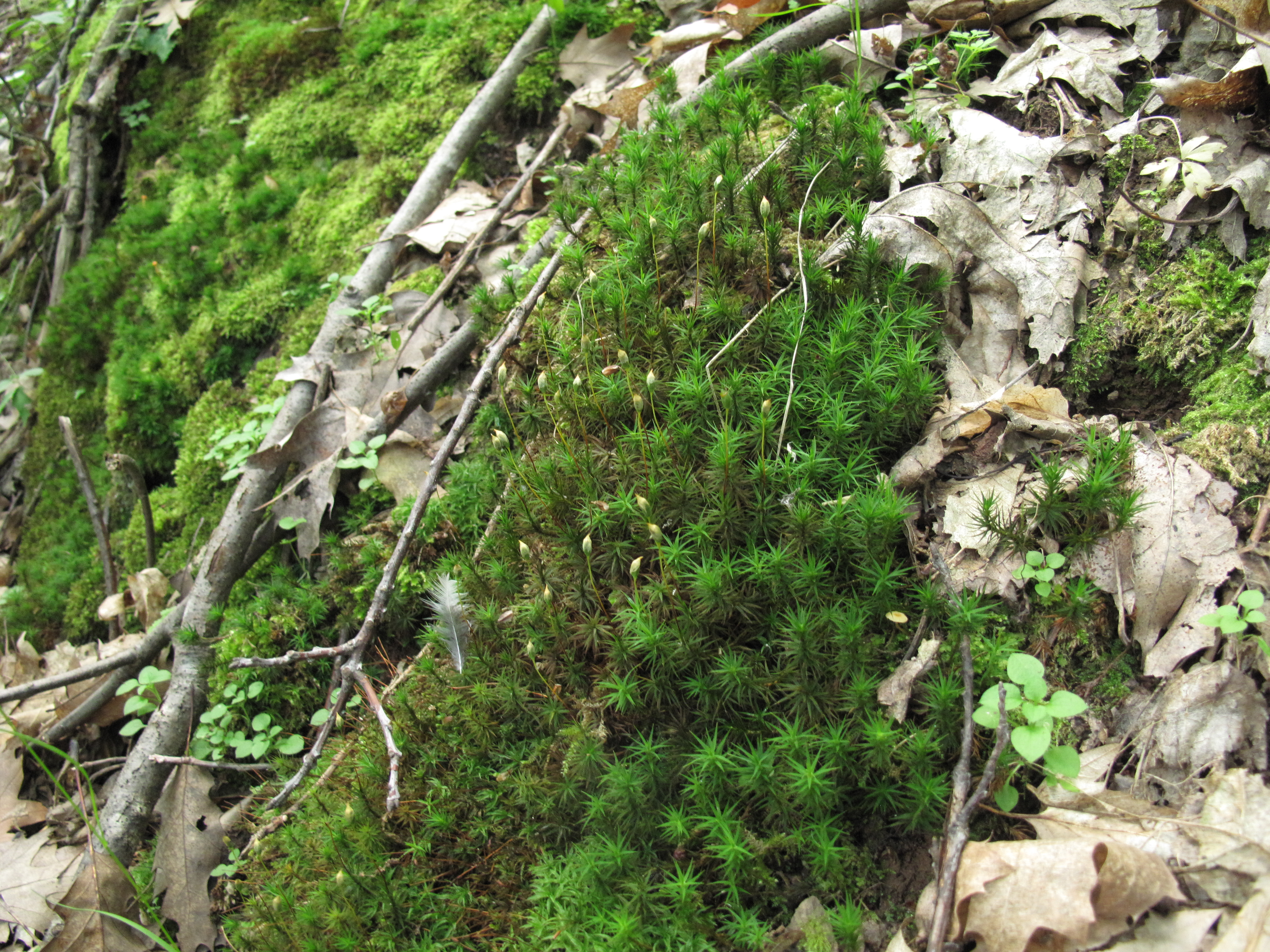 hair moss